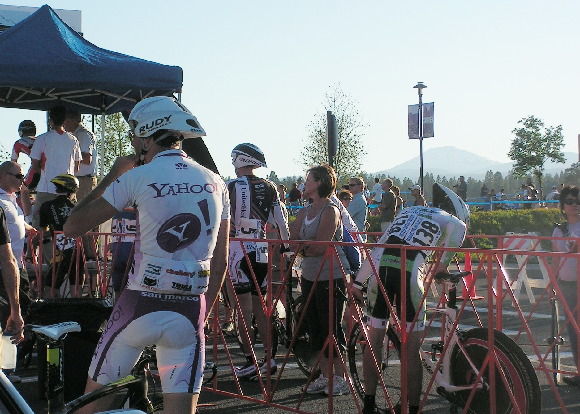 Cascade Cycling Classic, 2010 Prologue ITT, Mt. Bachelor in background.